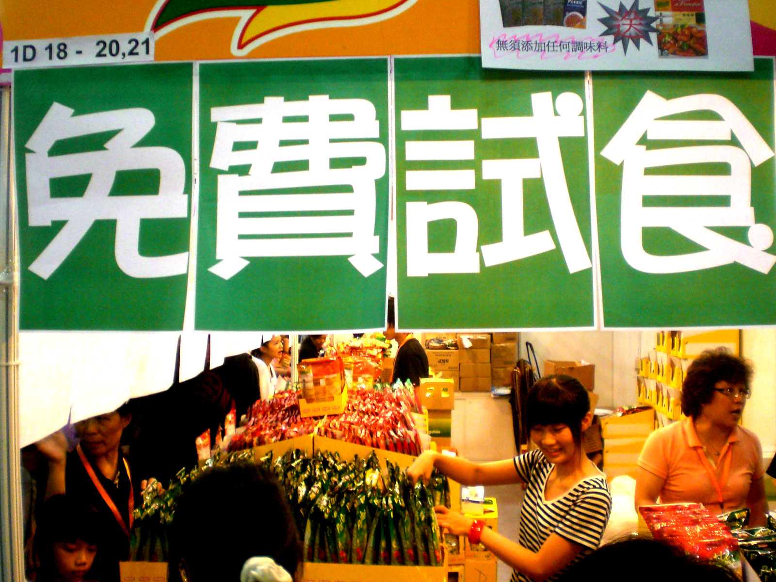 灣仔